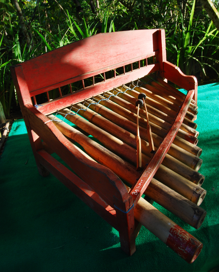 It looks like a typical bench, but it is actually a musical instrument. Saw this in a coffee plantation in Kintamani, Bali. Wondering what they call it? It's called "Rindik". Thanks to BALI for the answer. More story blog.bali